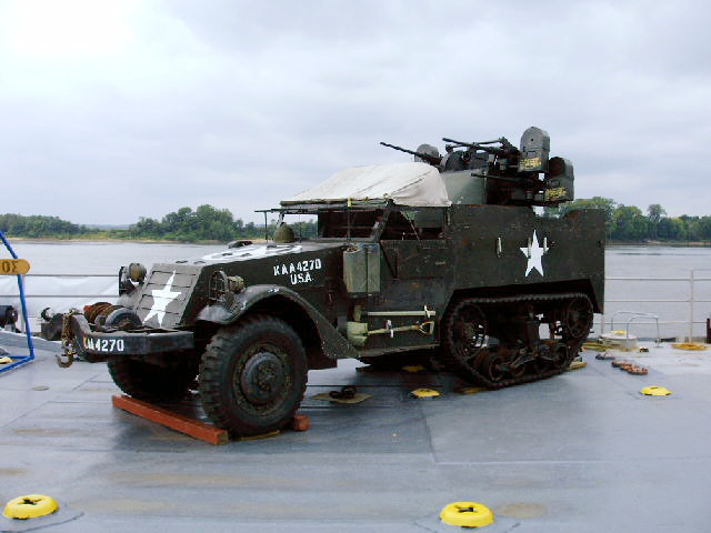 A restored M16 MGMC, an M3-based Multiple Gun Motor Carriage, a half-track armored vehicle on USS LST-325.